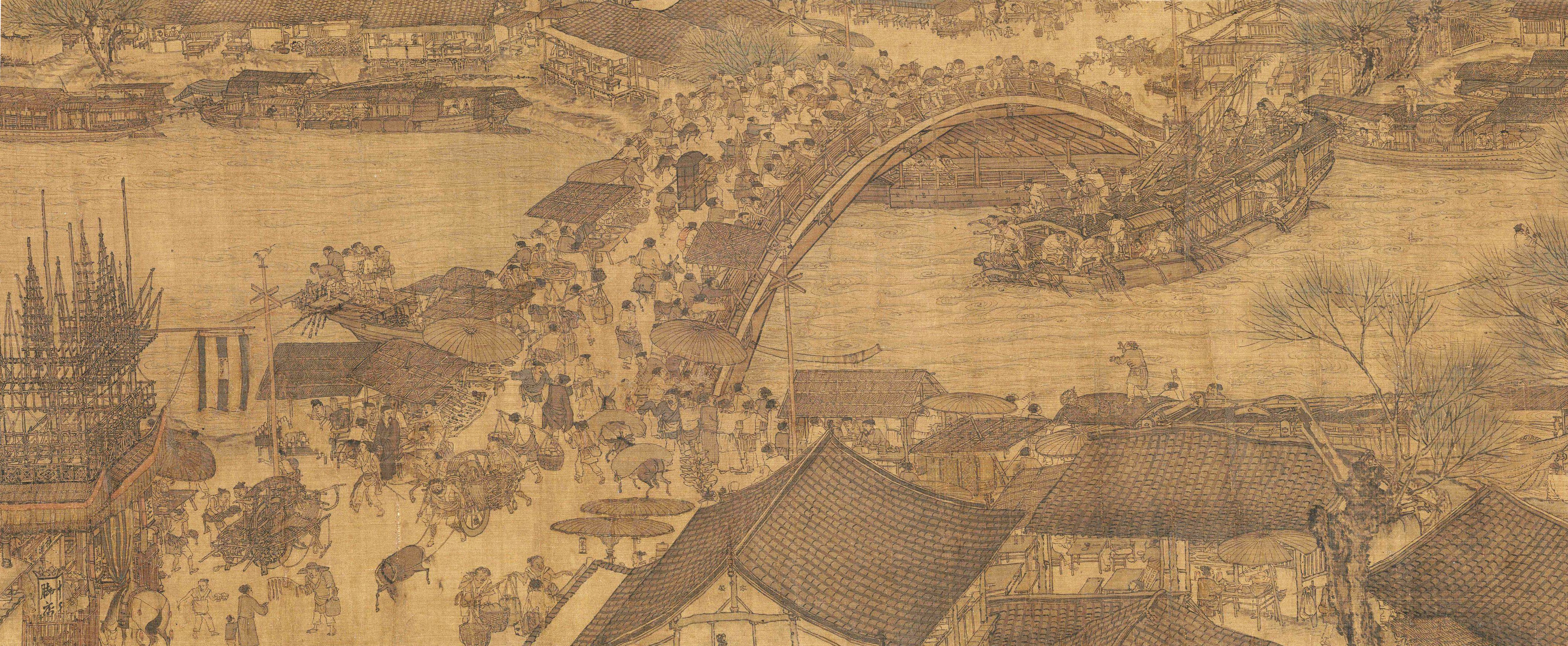 北宋zh:张择端《清明上河图》局部. A small section of the Song dynasty painting "Along the River During the Qingming Festival" by Zhang Zeduan.